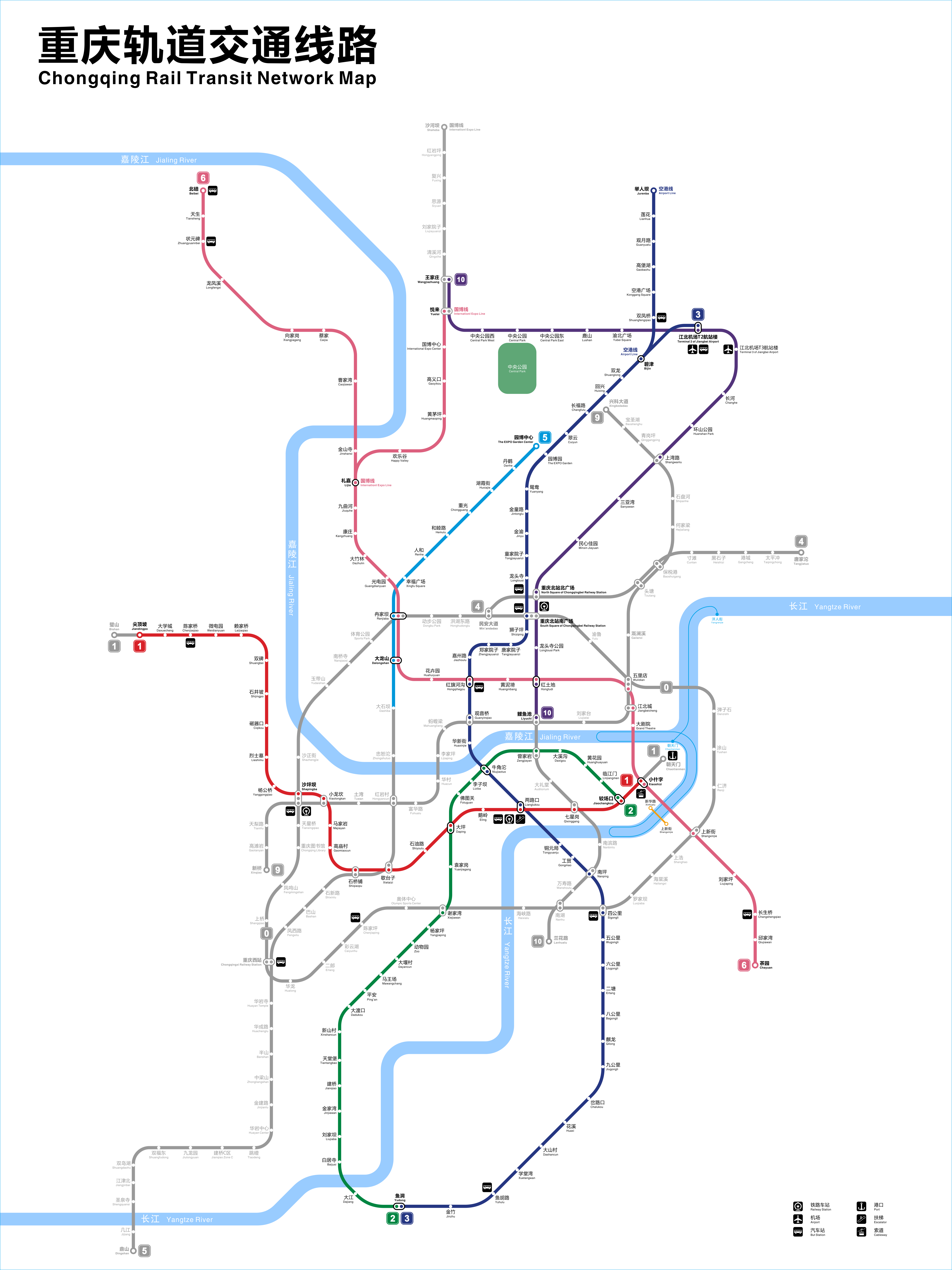 Chongqing_Rail_Transit_Map